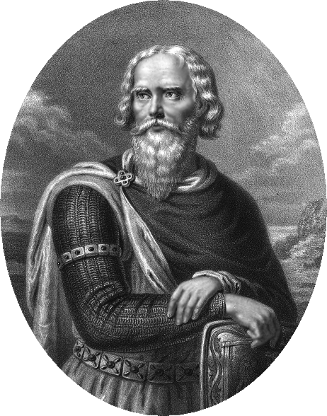 Mieszko III of Poland